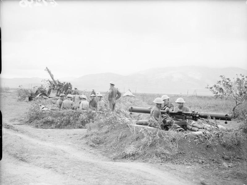 The British Army in Greece, 1940. Camouflaged anti-aircraft gun site in Greece, 1940.